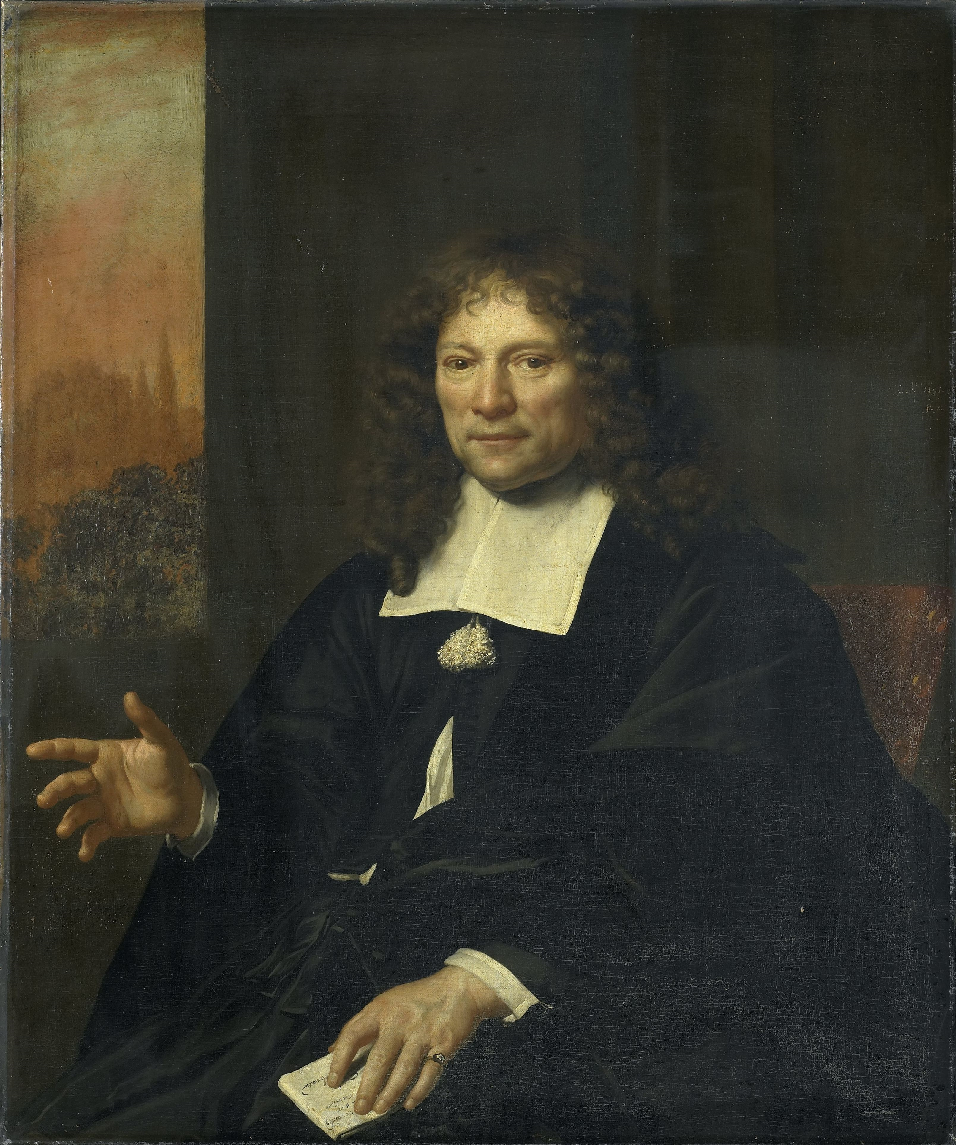 Portrait of Daniël Niëllius, cloth merchant, elder of the Remonstrant Church and sampling official in Alkmaar.